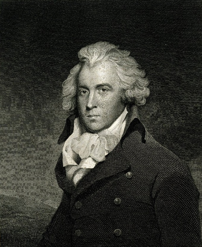 Portrait of Joseph Richardson, English author and Whig politician.